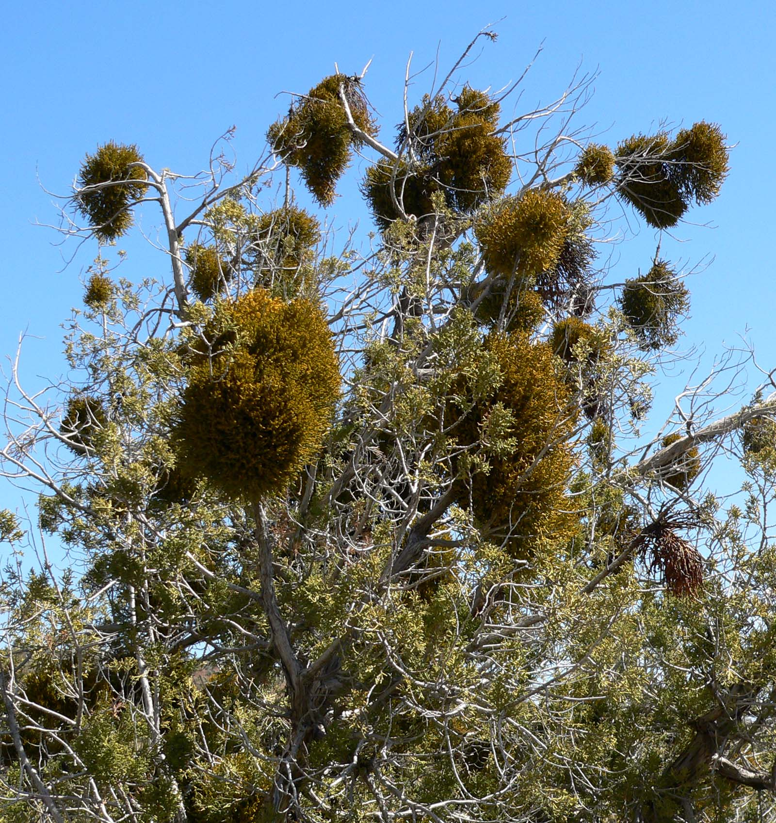 Photo of Phoradendron juniperinum (juniper mistletoe) in Red Rock Canyon, Nevada